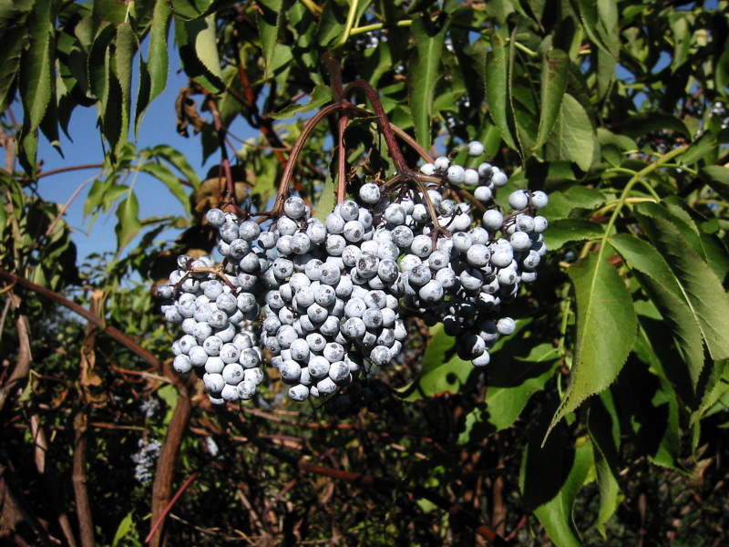 Sambucus caerulea Description: Blueberry Elder, Sambucus caerulea, foliage and berries Viewpoint location: Soda Mountain Road about 1.3 km east northeast of Soda Mountain, Cascade-Siskiyou National Monument Lat/Long: 42.0683°N, 122.4660°W (WGS84/NAD83) USGS Soda Mountain Quad [1] Viewpoint elevation: 5410' View direction: Northeast Date and time: 2005.10.22 14:50:02 PDT Camera: Canon PowerShot S110 Photographer: Walter Siegmund ©2005 Walter Siegmund